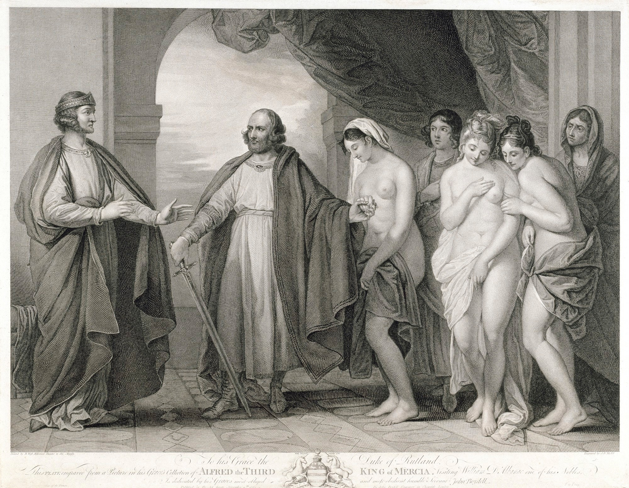 Jean-Baptiste Michel after Benjamin West, Alfred the Third, King of Mercia, visiting William d'Albanac, line engraving published by John Boydell, 42,8 x 59 cm, Royal Academy of Arts, inv. 04/1920.